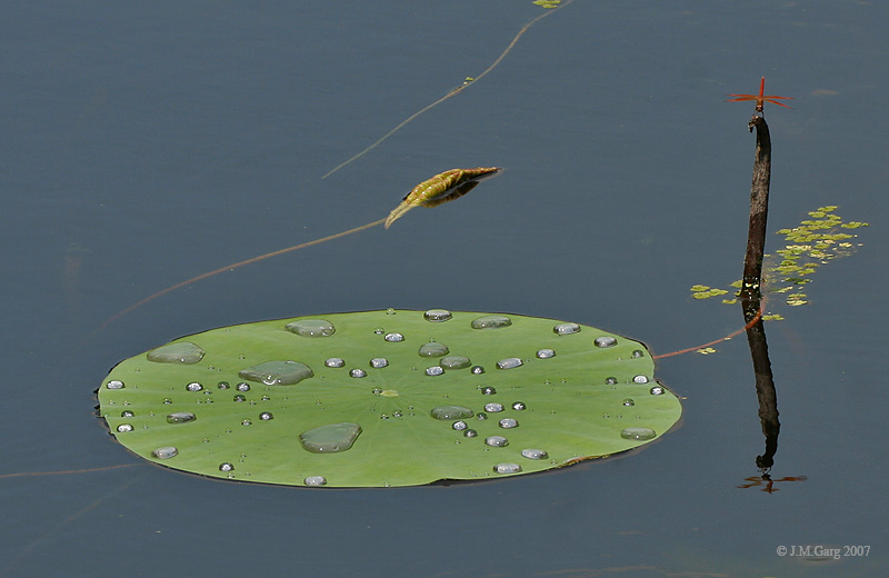 Indian Lotus Nelumbo nucifera in Kolkata, West Bengal, India.